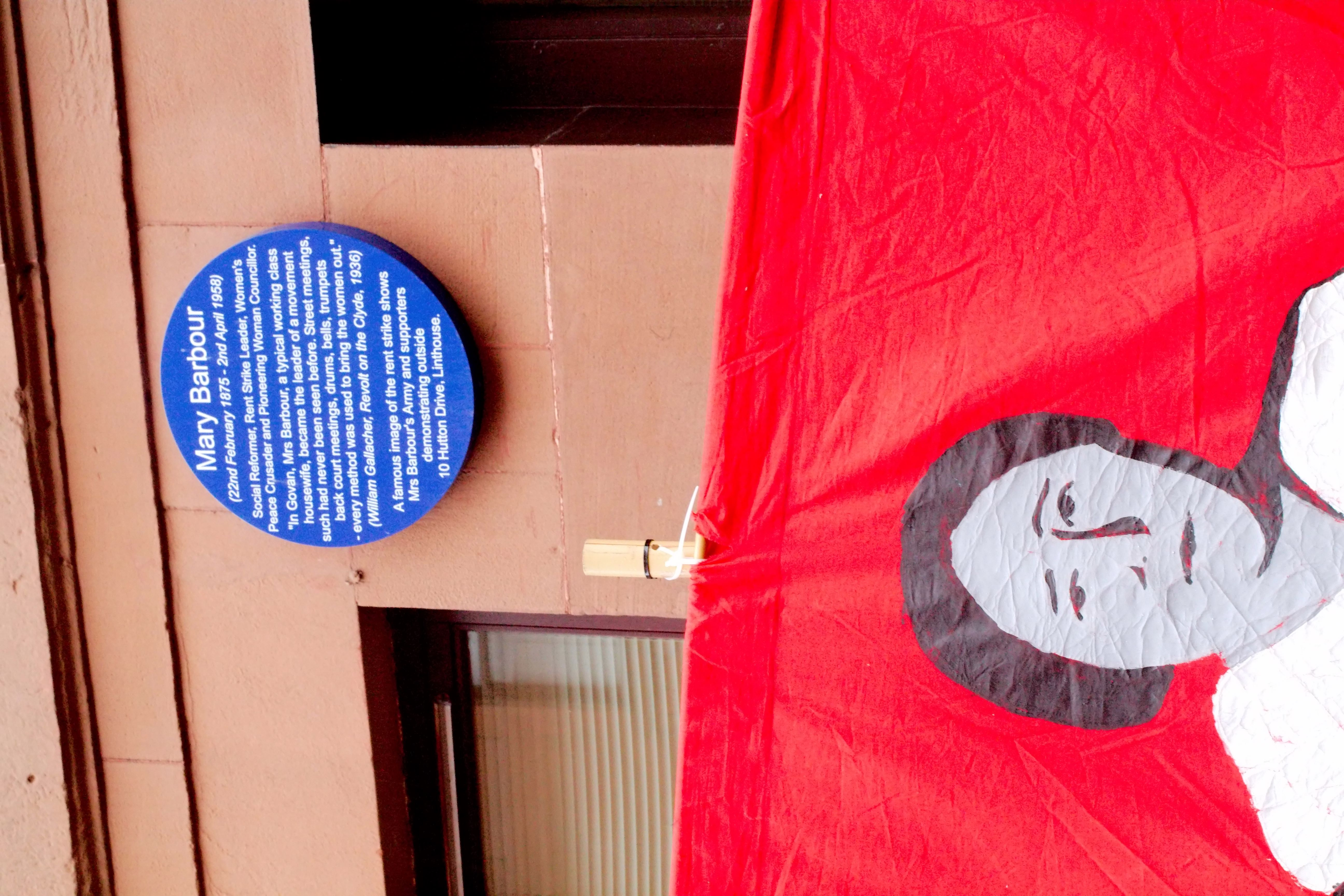 Blue Plaque commemorating the Glasgow Rent Strikes and Mary Barbour. Plaque is sited at 10 Hutton Drive, Linthouse, where a famous contemporary image shows a Rent Strike gathering occurring. Mary Barbour banner created by local craft group Bead 'n Blether and artist Geraldine Greene in 2012. The banner was commissioned by artists t s Beall and Matt Baker for a larger creative project titled 'Nothing About Us Without Us Is For Us', part of the Glasgow International Festival of Visual Art.